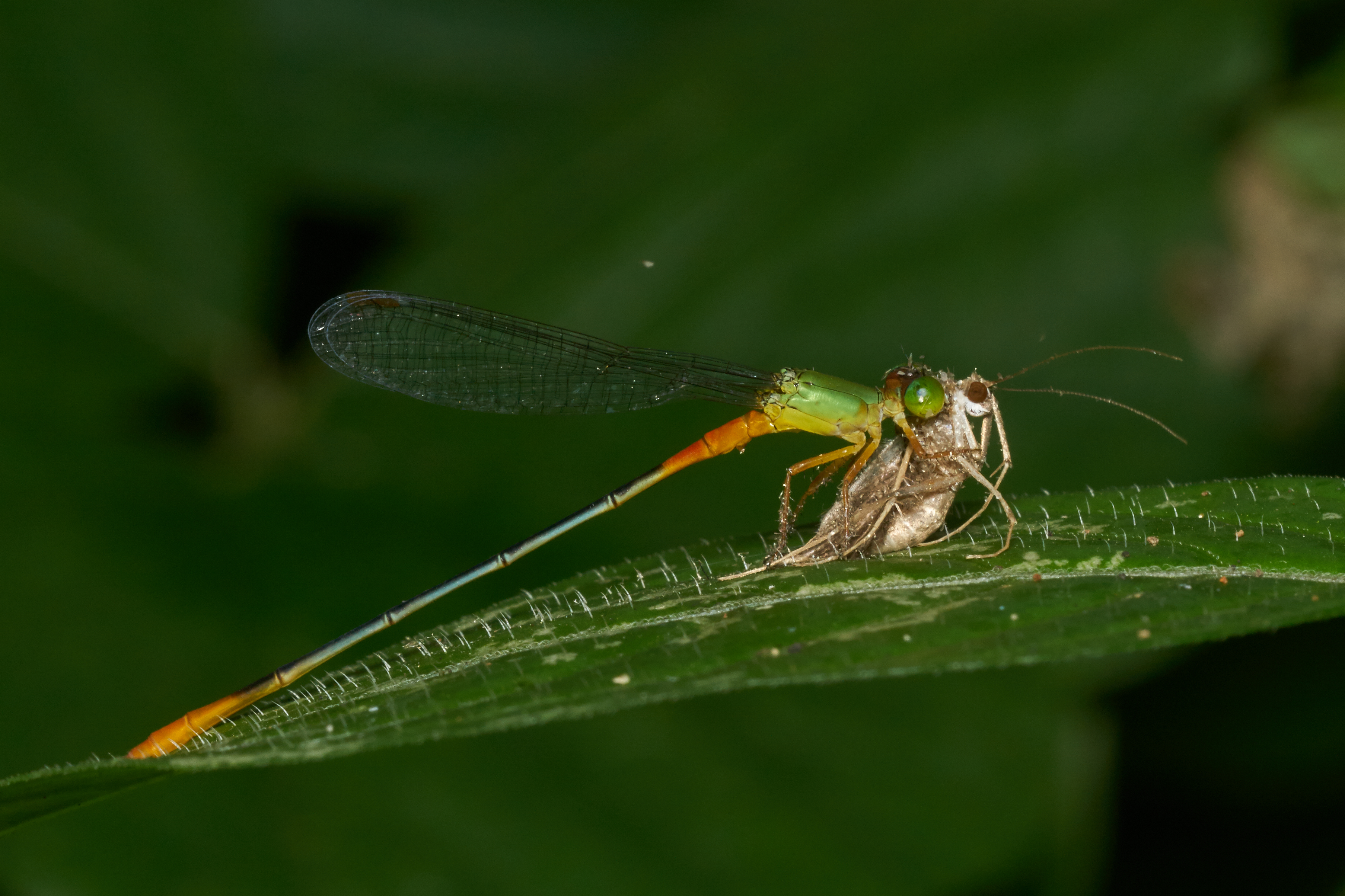 Ceriagrion cerinorubellum with a Lepidoptera as prey